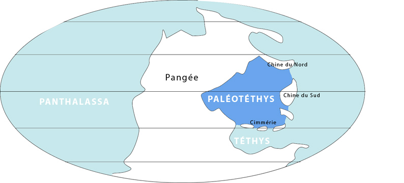 Paleotethys Ocean 280 million years ago.